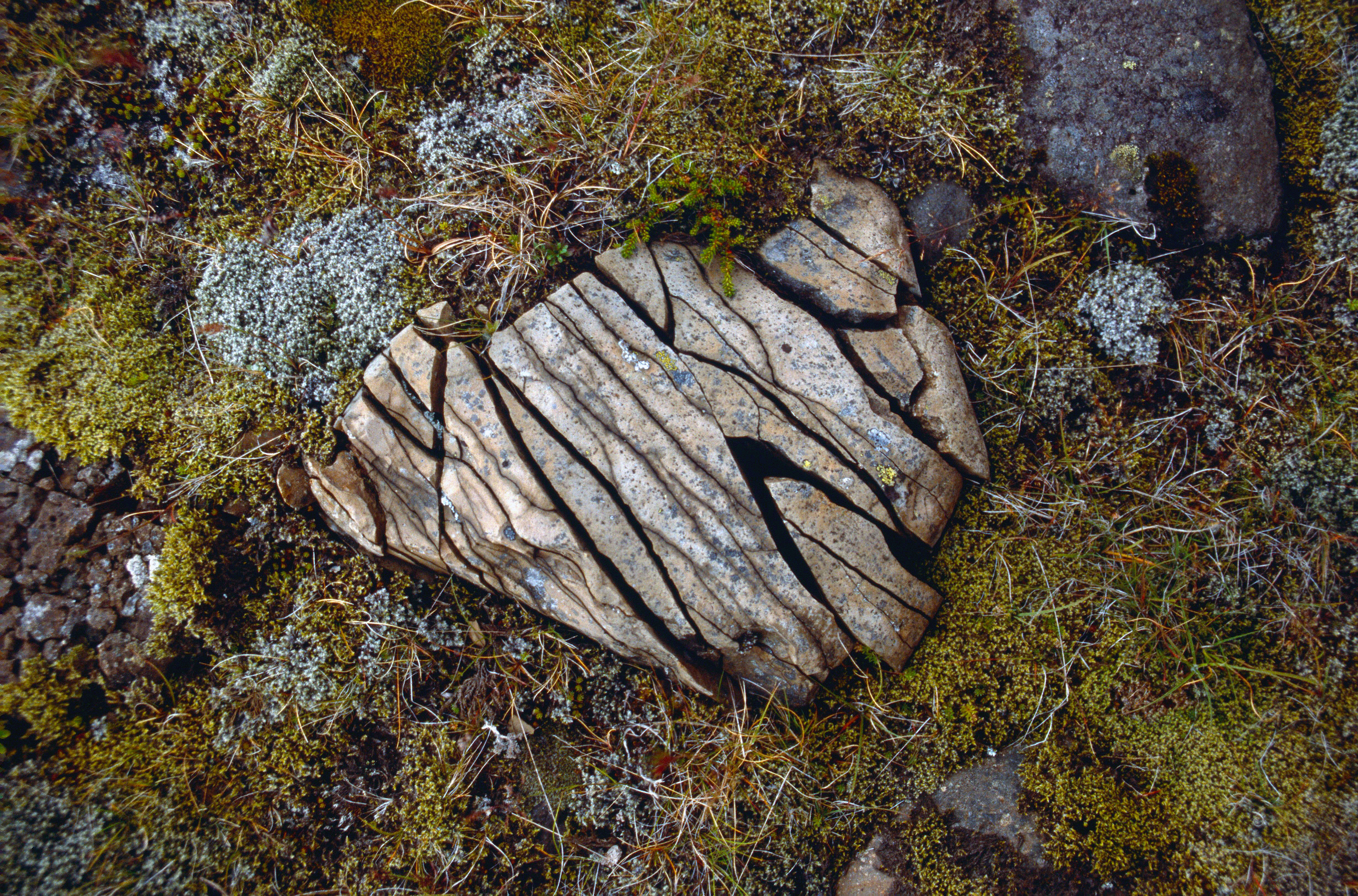 Freeze-thaw weathering of a rock in southern Iceland